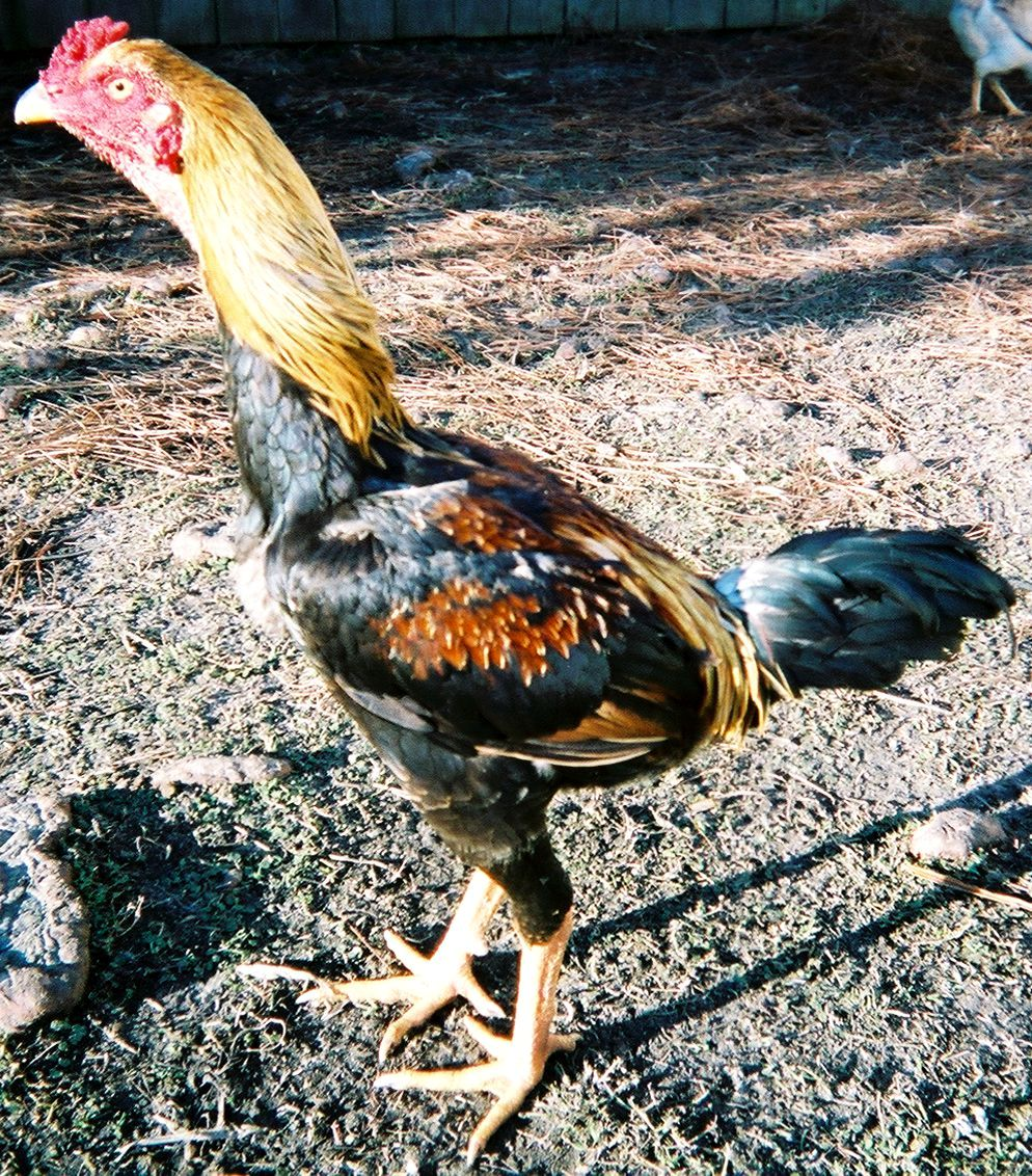 Saipan Jungle Fowl Male Black Breasted Red Cock, Picture taken by Robert Buhat.